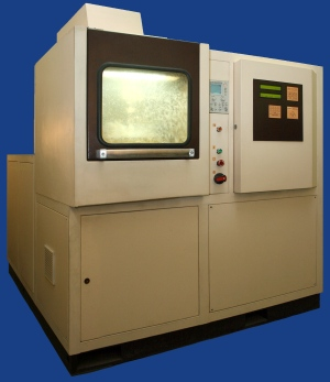 Universal compact Electrochemical Shaper EXF-A1 is intended for manufacture of impression of mold tool, press-tools, moulds, special figurine-shaped instrument, percussive and knurling tool, machine elements with processing area up to 120 cm2 by inverse duplication method of form and parameters of tool electrode at work material dissolving with practically full form reflection of an electrode-tool on face surfaces and accuracy of processing 0,005mm on lateral surfaces.